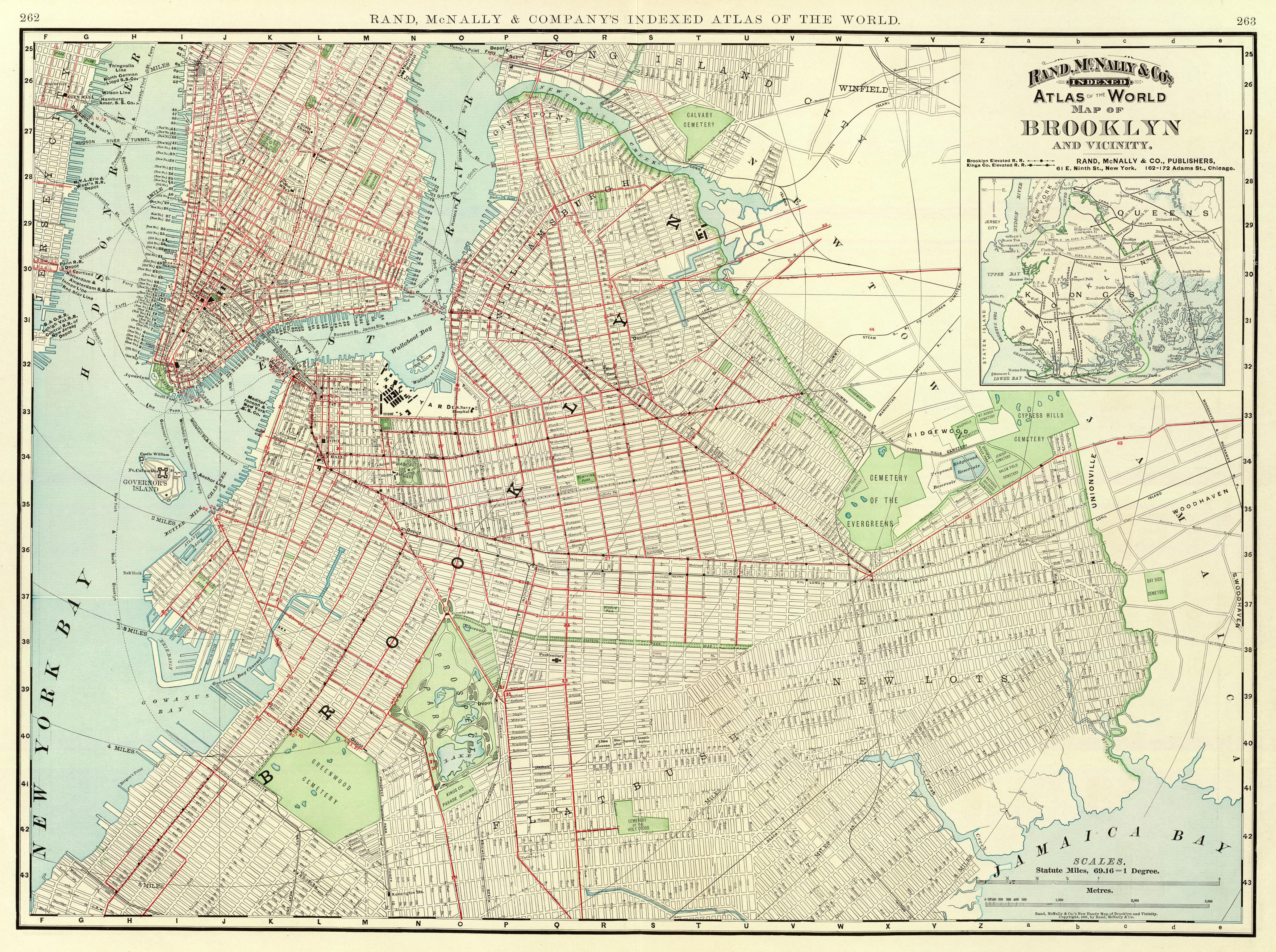 Map of Brooklyn and vicinity published by Rand McNally in 1897 as part of their Atlas of the World.